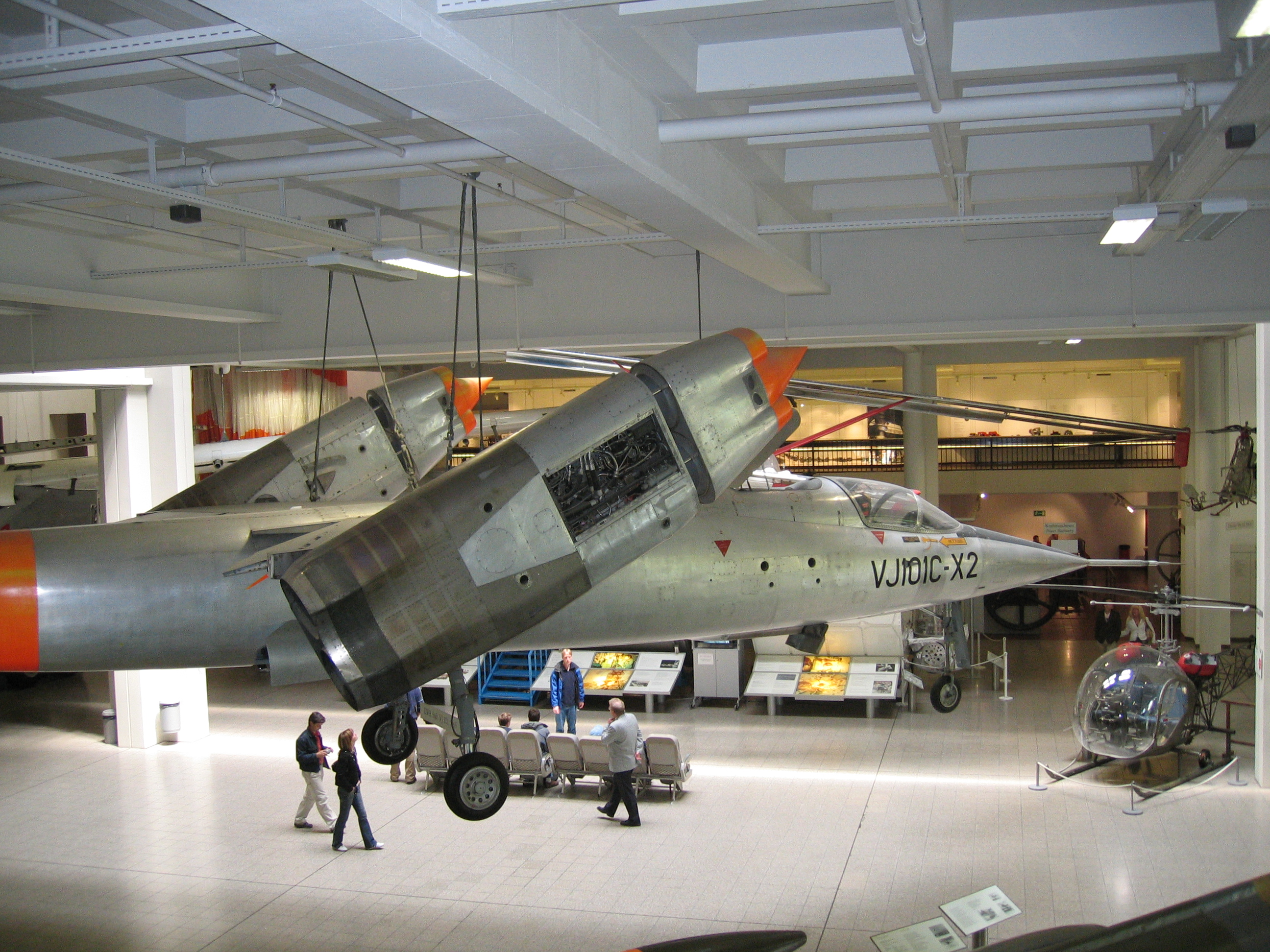 Taken by John McCullagh